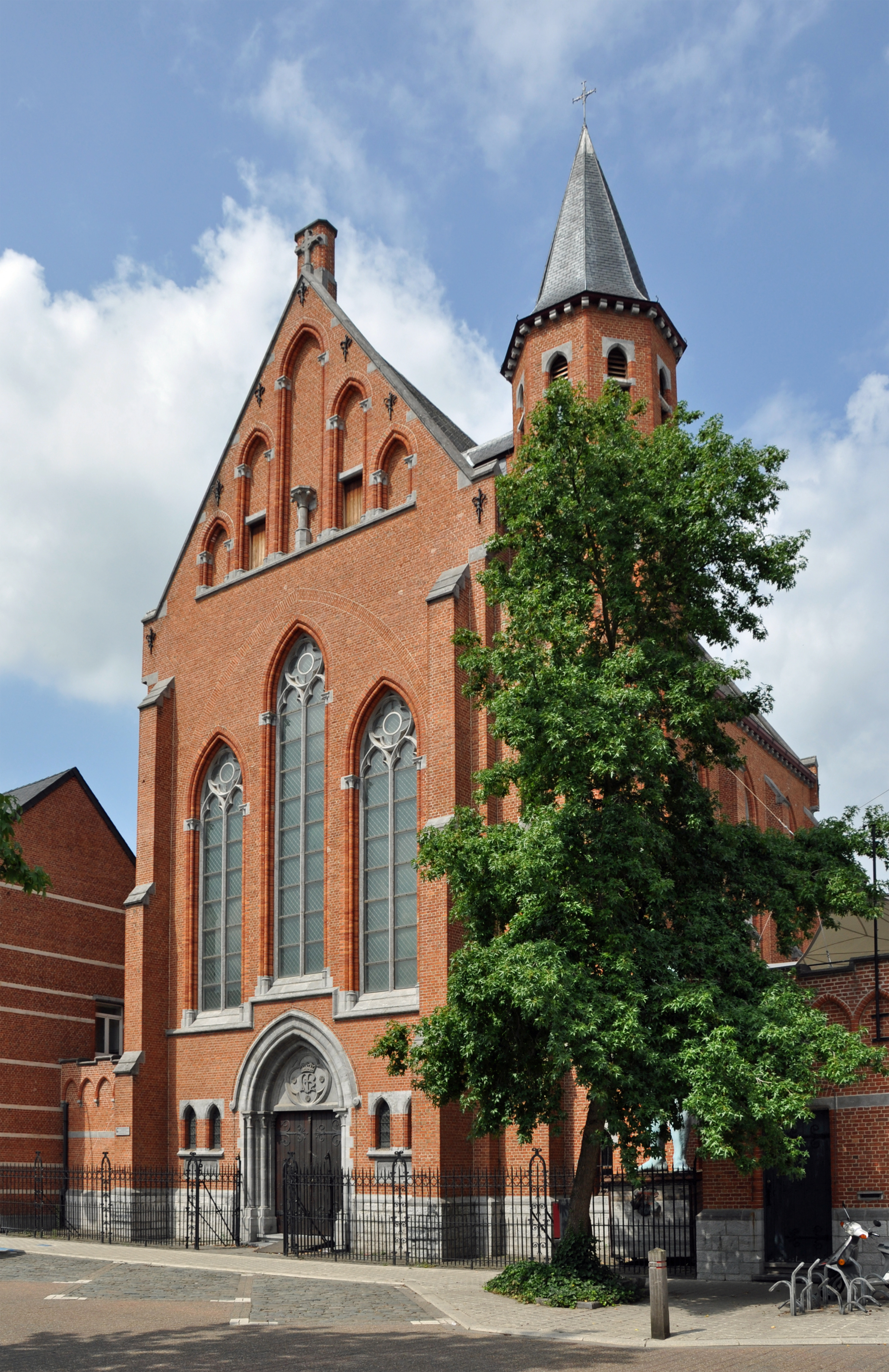 Aarschot (Belgium): St Elisabeth's chapel (built 1904)